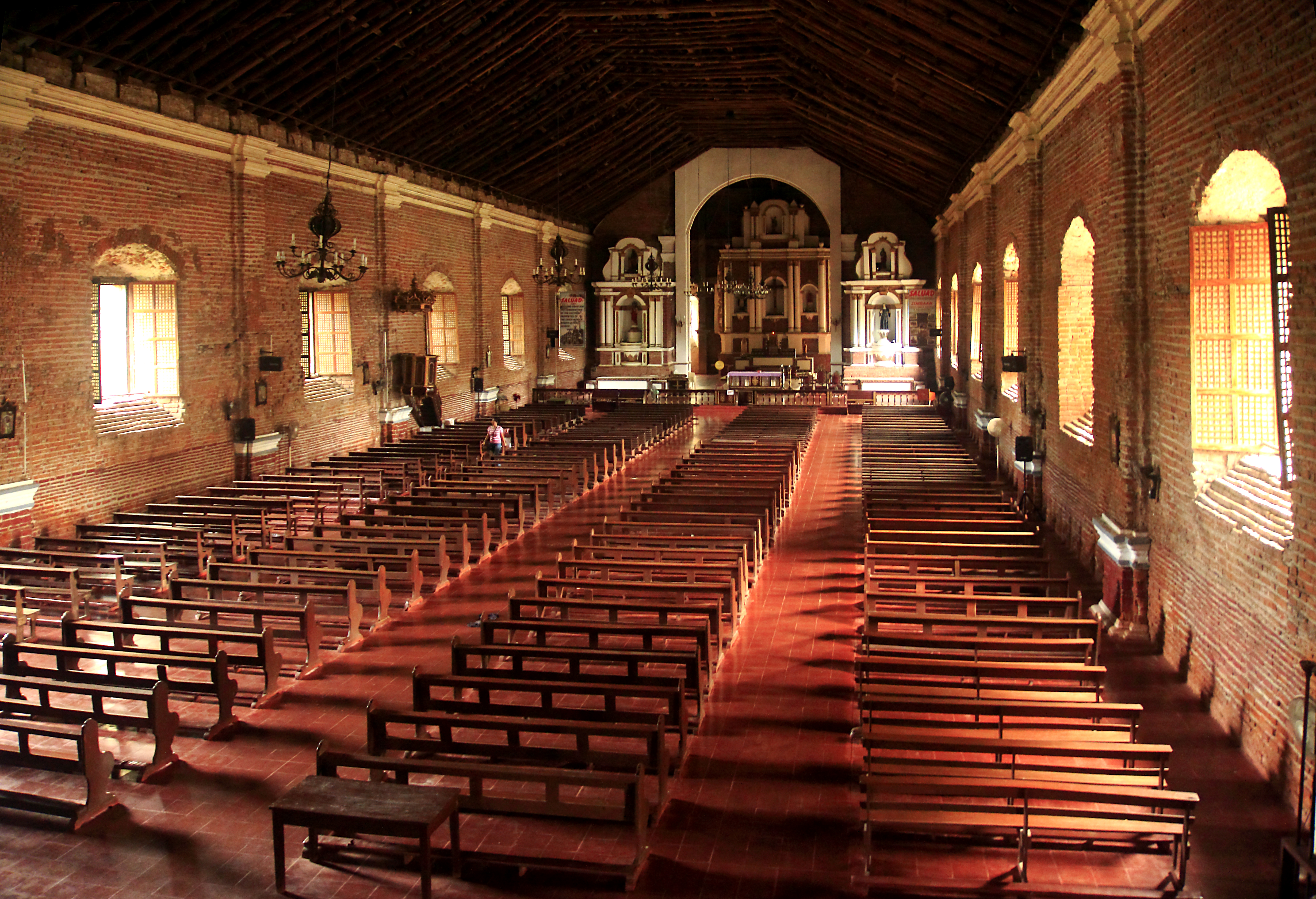 the brick walls, wooden high ceiling and simple altar adds to the sweeping sense of space inside the huge hall of sarrat church; peaceful yet eerie enough for those who knew of the old torture chambers that stands beside it.